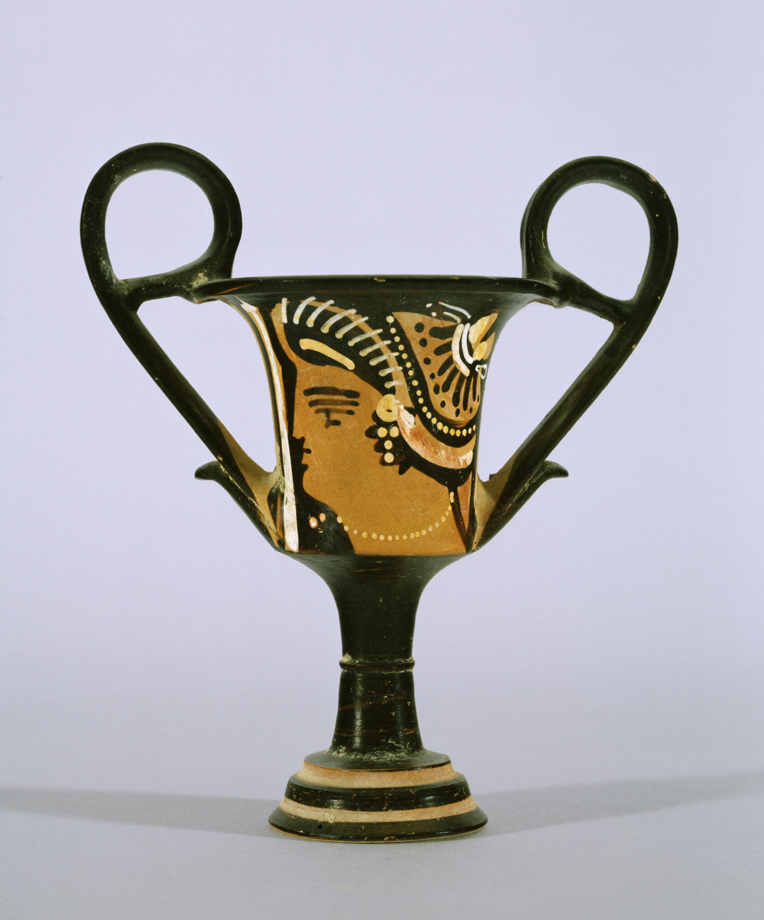 Vase painters in Apulia developed two major styles: the Plain style characterized by simple decoration and few figures, and the Ornate style, which featured multi-figure colorful scenes, lavish ornaments, and intricate floral compositions. A large female head is a typical decoration for drinking vessels like this one, small-scale vases, cups, and plates created in the Plain style.